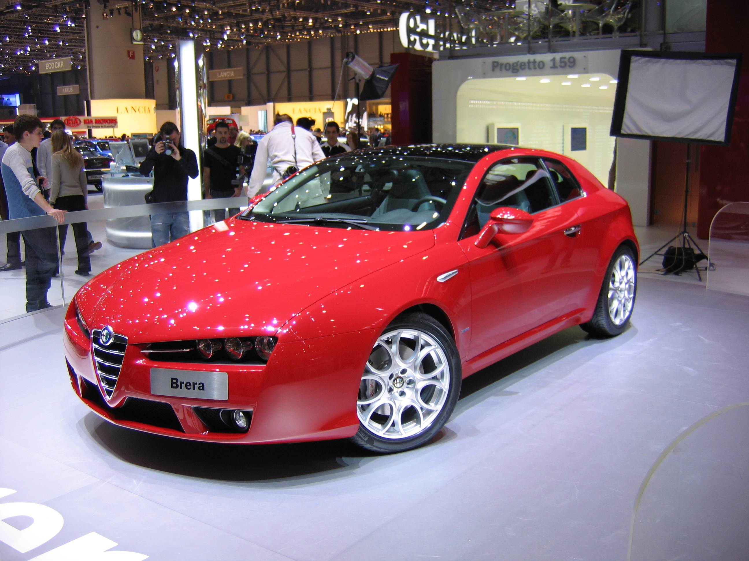 Geneva Motor Show 2005